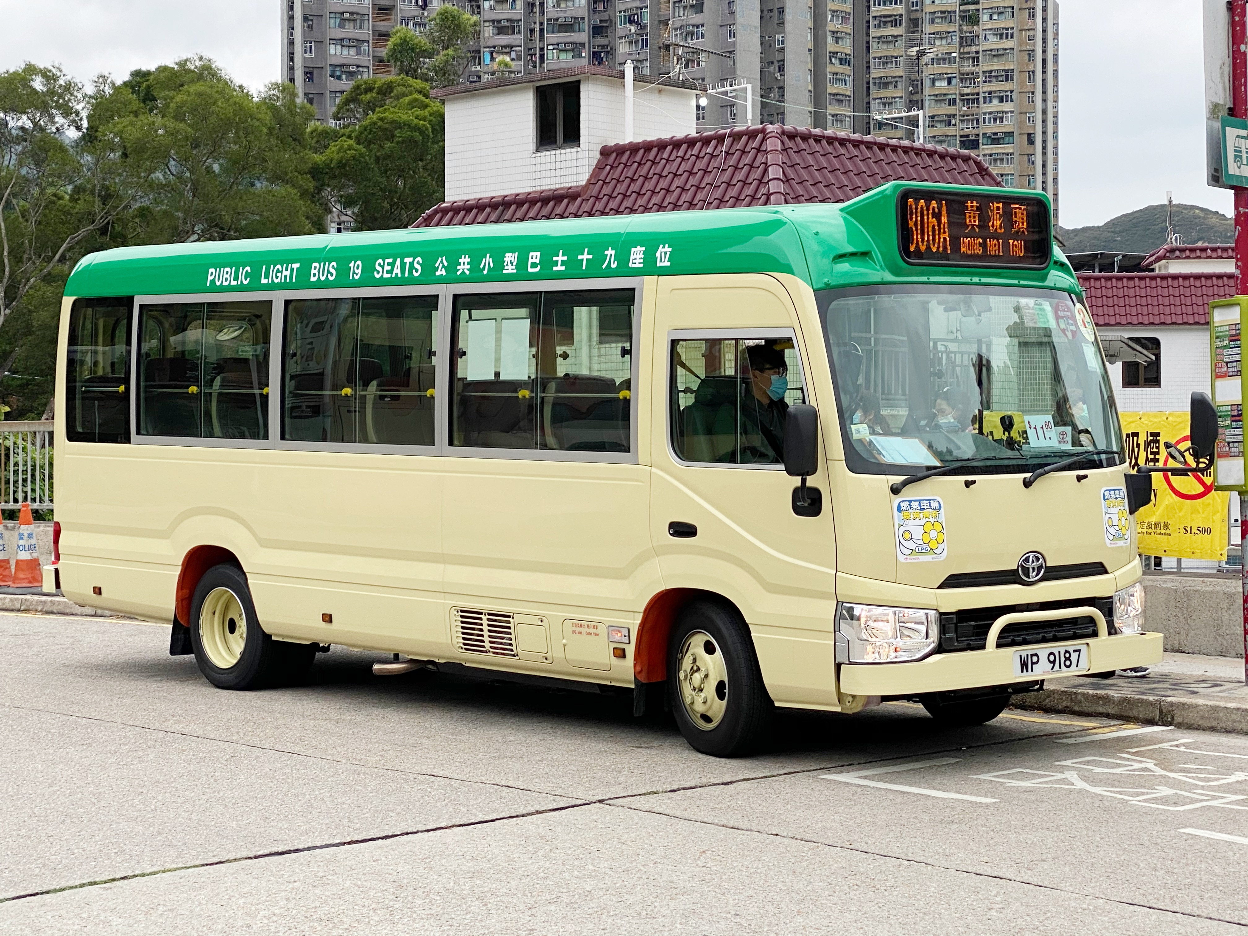 中文（香港）: This photo is taken in Wong Nai Tau.